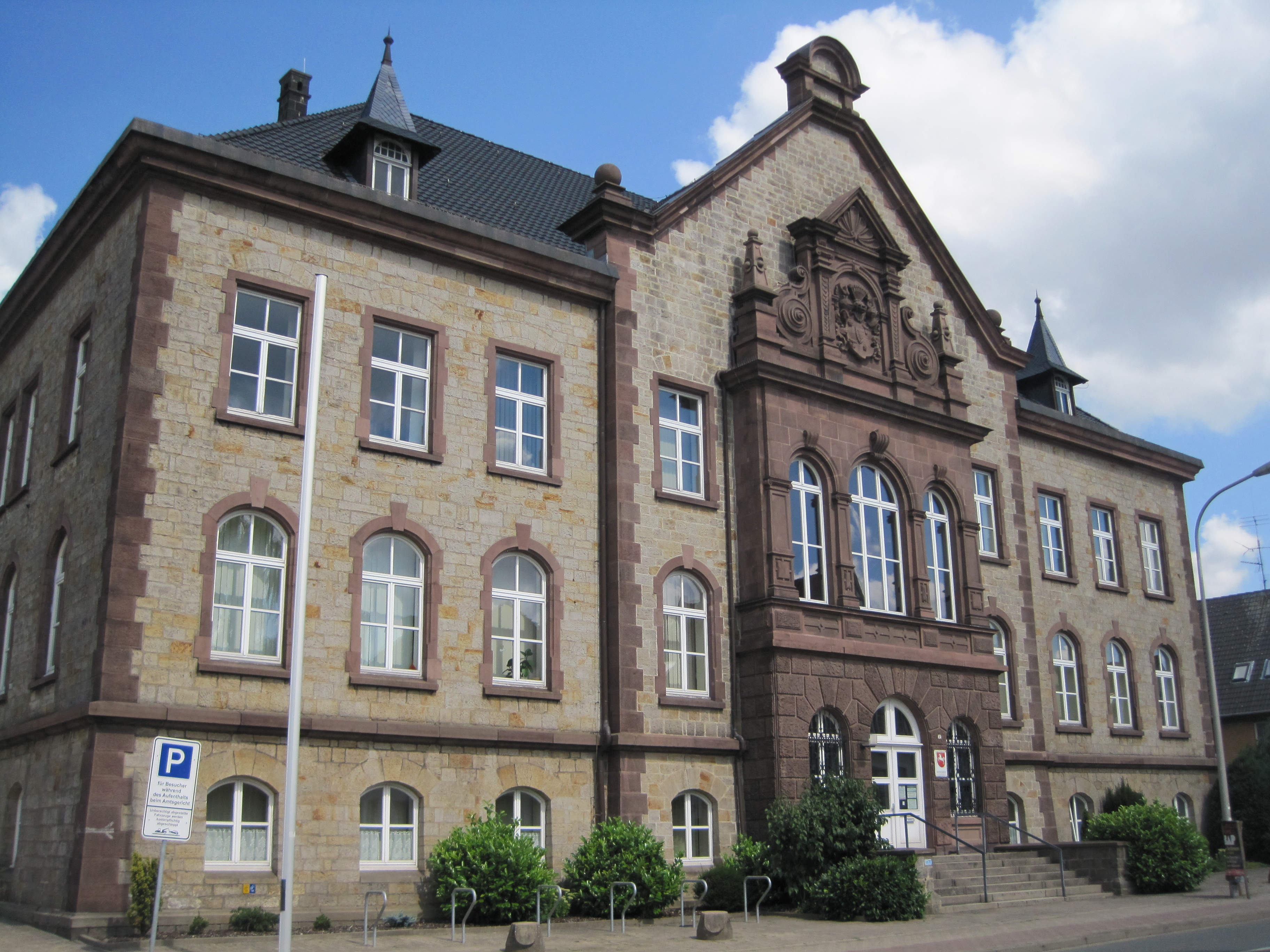 Courthouse Amtsgericht Stadthagen, Stadthagen, Germany